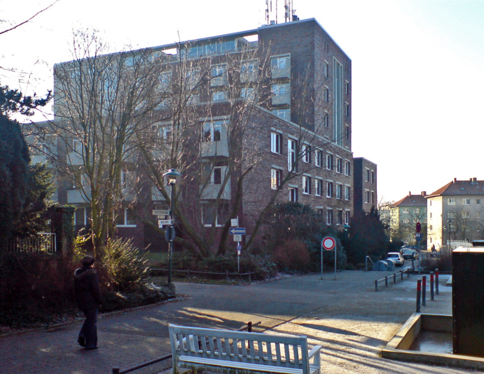 The Ernst-Neufert-Haus in Darmstadt, Germany. Looking roughly west.